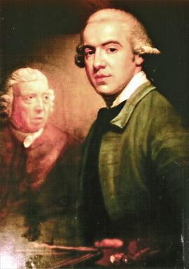 Self-portrait of the artist painting his father, Gerard Vandergucht by Benjamin Vandergucht, c 1776. Private collection of Stephen Benson.